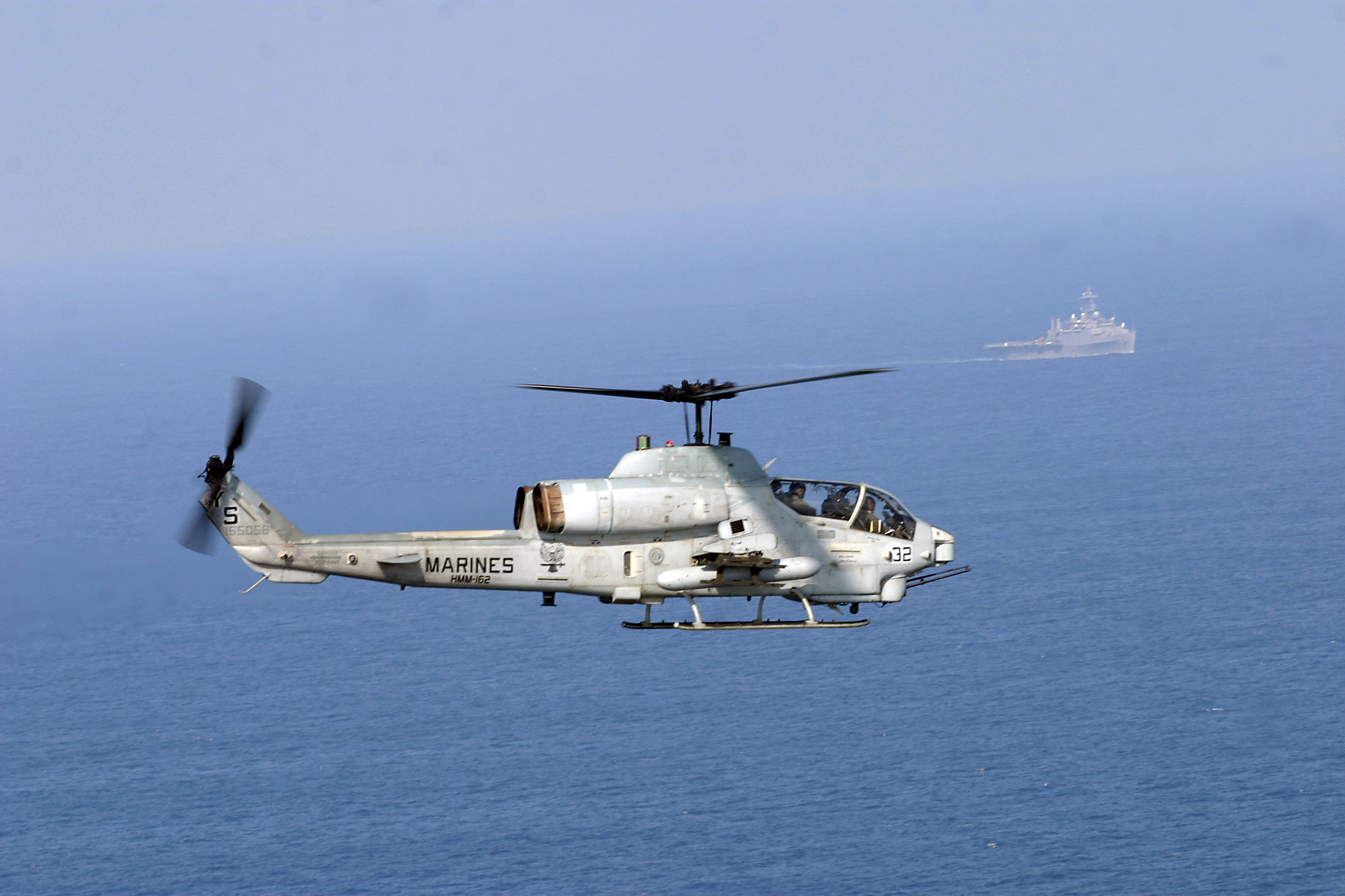 Atlantic Ocean (Apr. 5, 2005) - An AH-1W Super Cobra assigned to "Golden Eagles" of Marine Medium Helicopter Squadron One Six Two (HMM-162), provides security for the amphibious transport dock USS Ponce (LPD 15) during a training exercise in the Atlantic Ocean. Ponce, assigned to the USS Kearsarge (LHD 3) Expeditionary Strike Group, is on a regularly scheduled deployment in support of the Global War on Terrorism. U.S. Marine Corps photo by Cpl. Eric R. Martin (RELEASED)